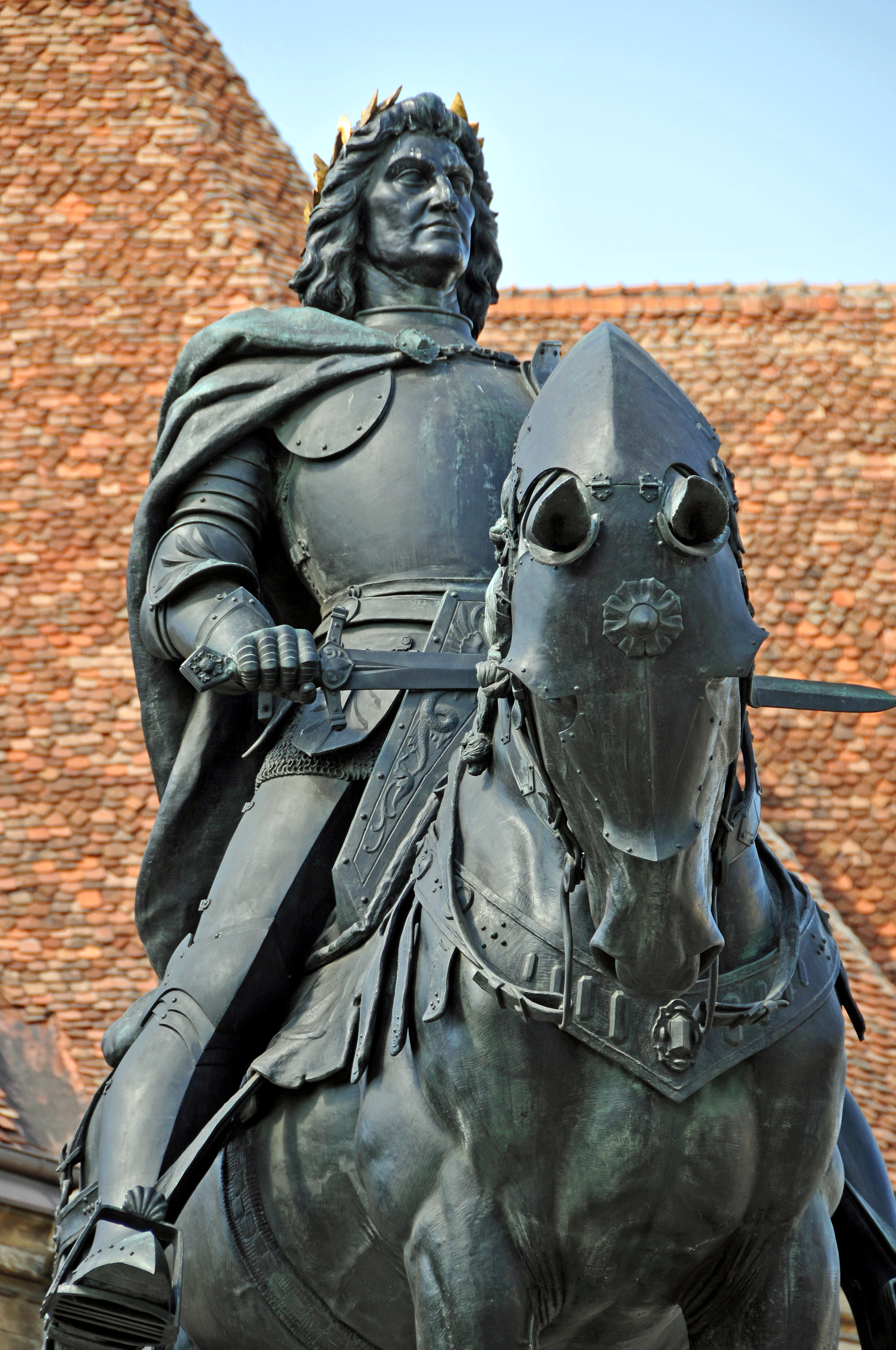 PLEASE, no multi invitations, glitters or self promotion in your comments, THEY WILL BE DELETED. My photos are FREE for anyone to use, just give me credit and it would be nice if you let me know, thanks - NONE OF MY PICTURES ARE HDR. Matthias Corvinus' statue, one of Hungary’s most famous kings, was born in 1443, Union Square, Cluj-Napoca. The monument is composed of an equestrian statue of King Matthew Corvin, and in the front of the statue there are placed 4 other statues: Paul The Chinese (leader of Timis) Blasiu Magyar (old leader of the mercenaries of Matei Corvin - the famous "Black Army"), Stephen Szapolyai (vice king of Hungary) and Stephen Bathory (hospodar in that time in Transylvania).